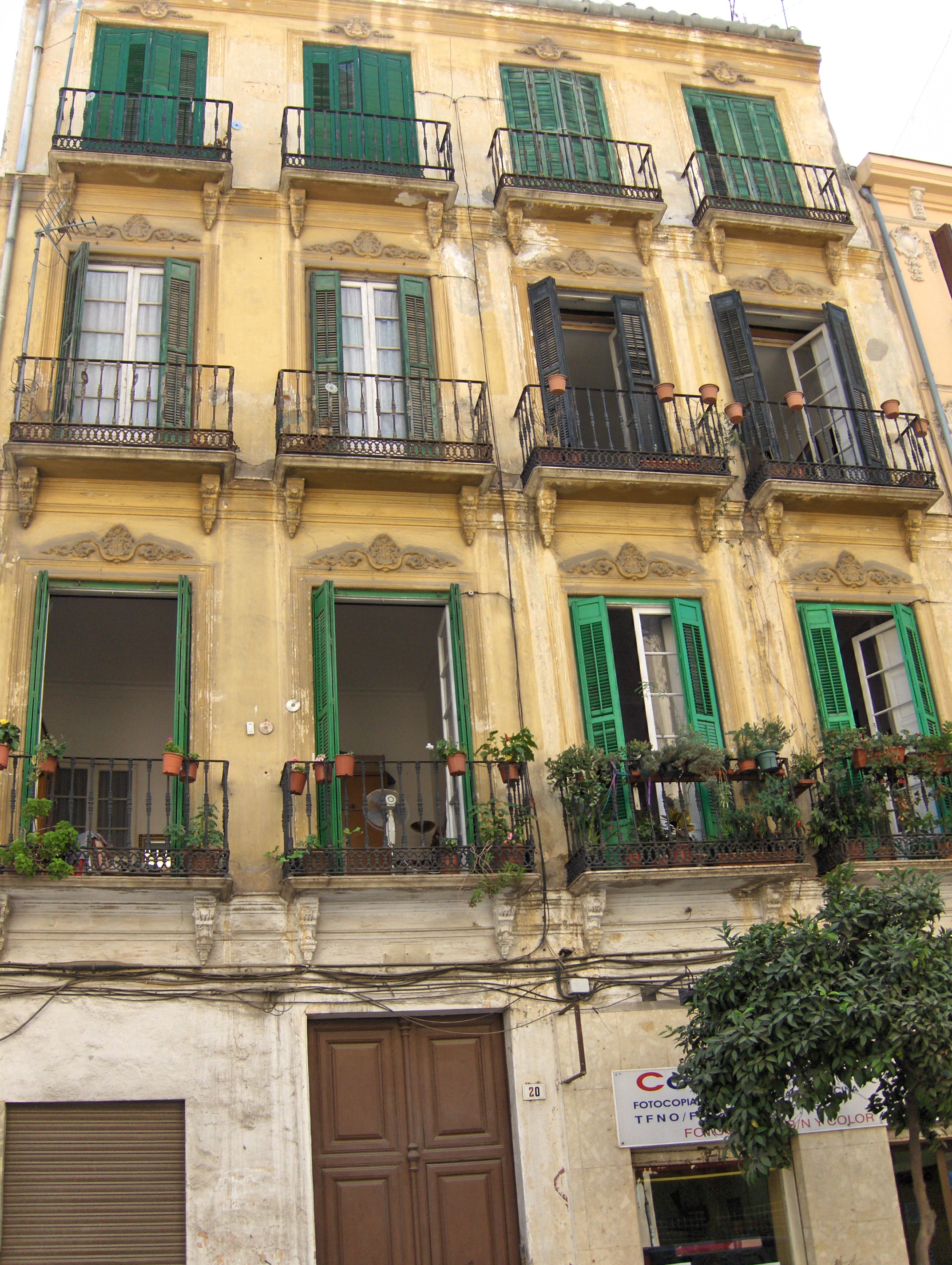 Façade in calle Victoria 20, Málaga.